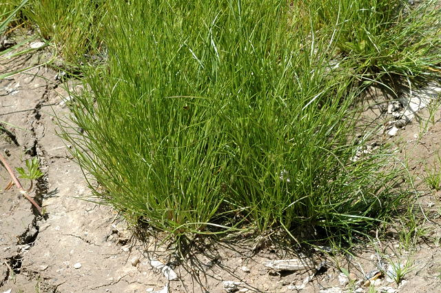 Picture taken in Commanster, Belgian High Ardennes . Species: Juncus bufonius